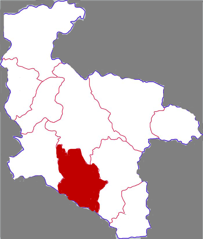 Location of Langao county in Ankang city, China